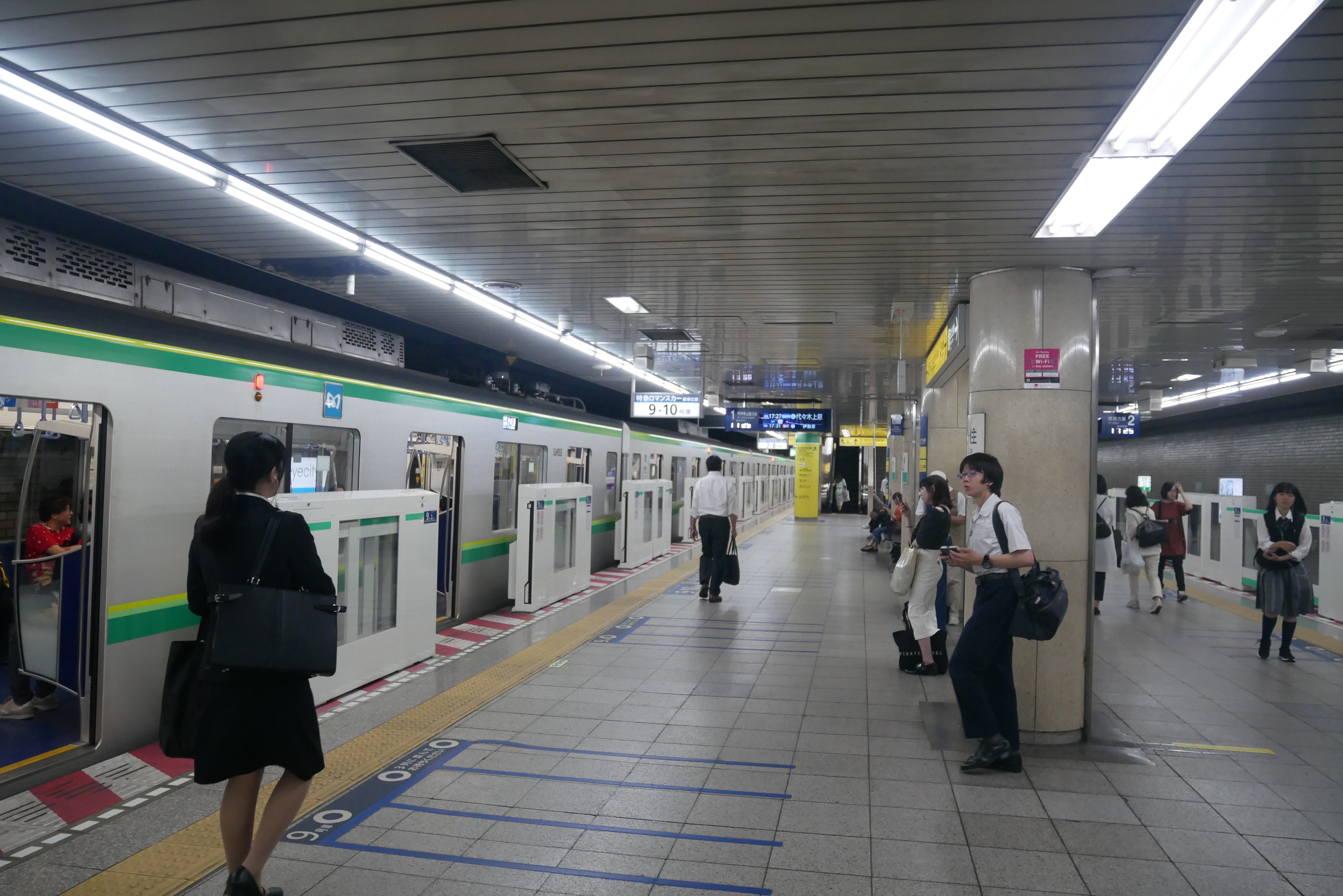 Kita-senju Station platforms (北千住駅のホーム)